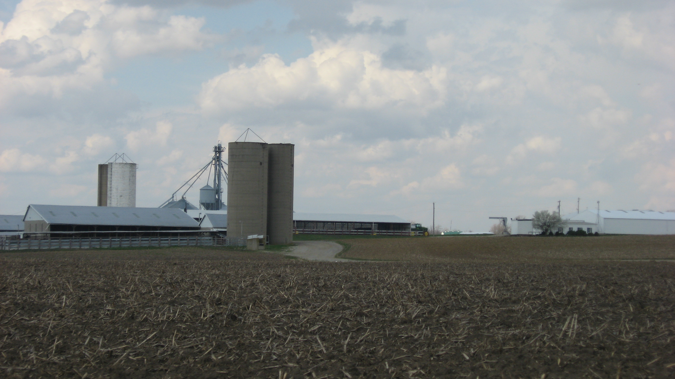 Overview of the Beam Farm, located at 3983 Stone Road southwest of Sabina in Wilson Township, Clinton County, Ohio, United States. The farm complex includes a group of Adena and Hopewell burial mounds, which are significant archaeological sites. They have been designated a historic district, the Beam Farm Woodland Archeological District, and they are listed on the National Register of Historic Places.